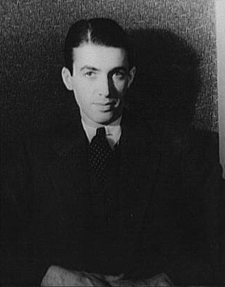 James Stewart, 15 October 1934